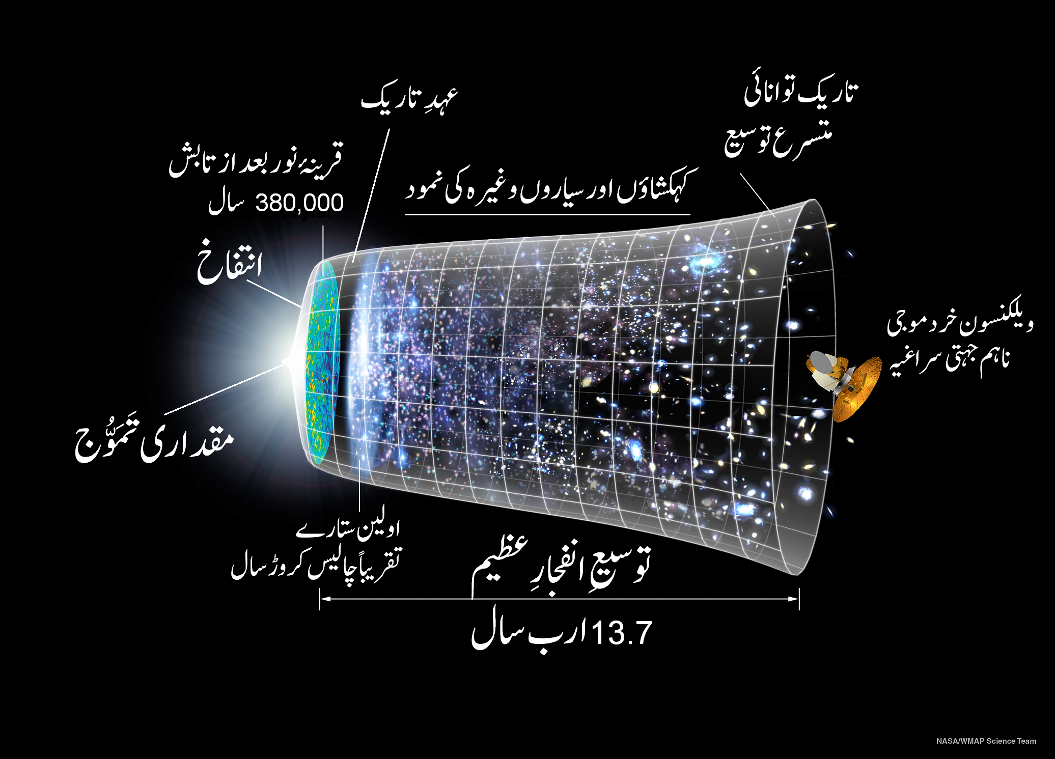 Time Line of the Universe (WMAP # 060915)